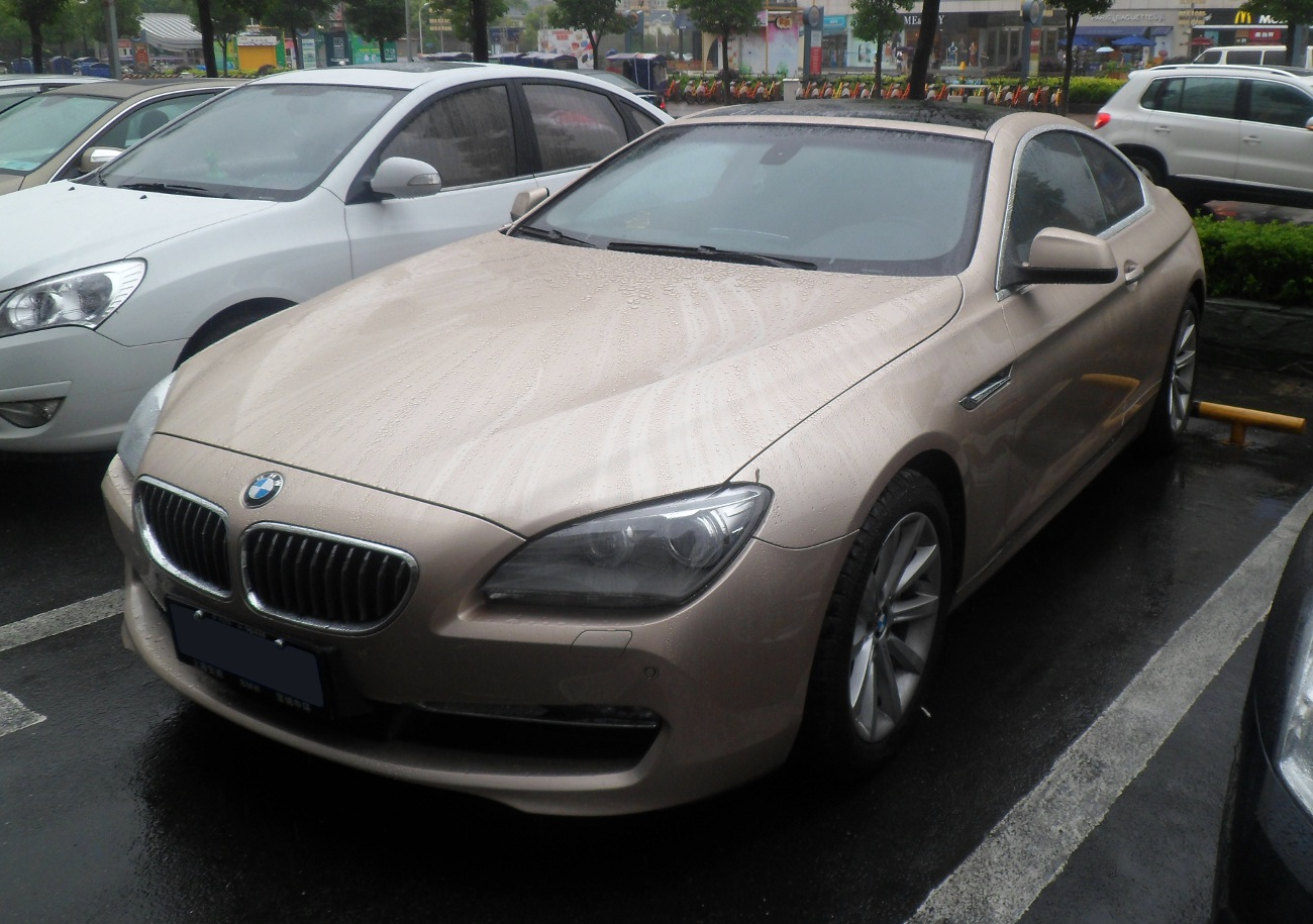 BMW 6-Series F13 photographed in Shanghai, China.